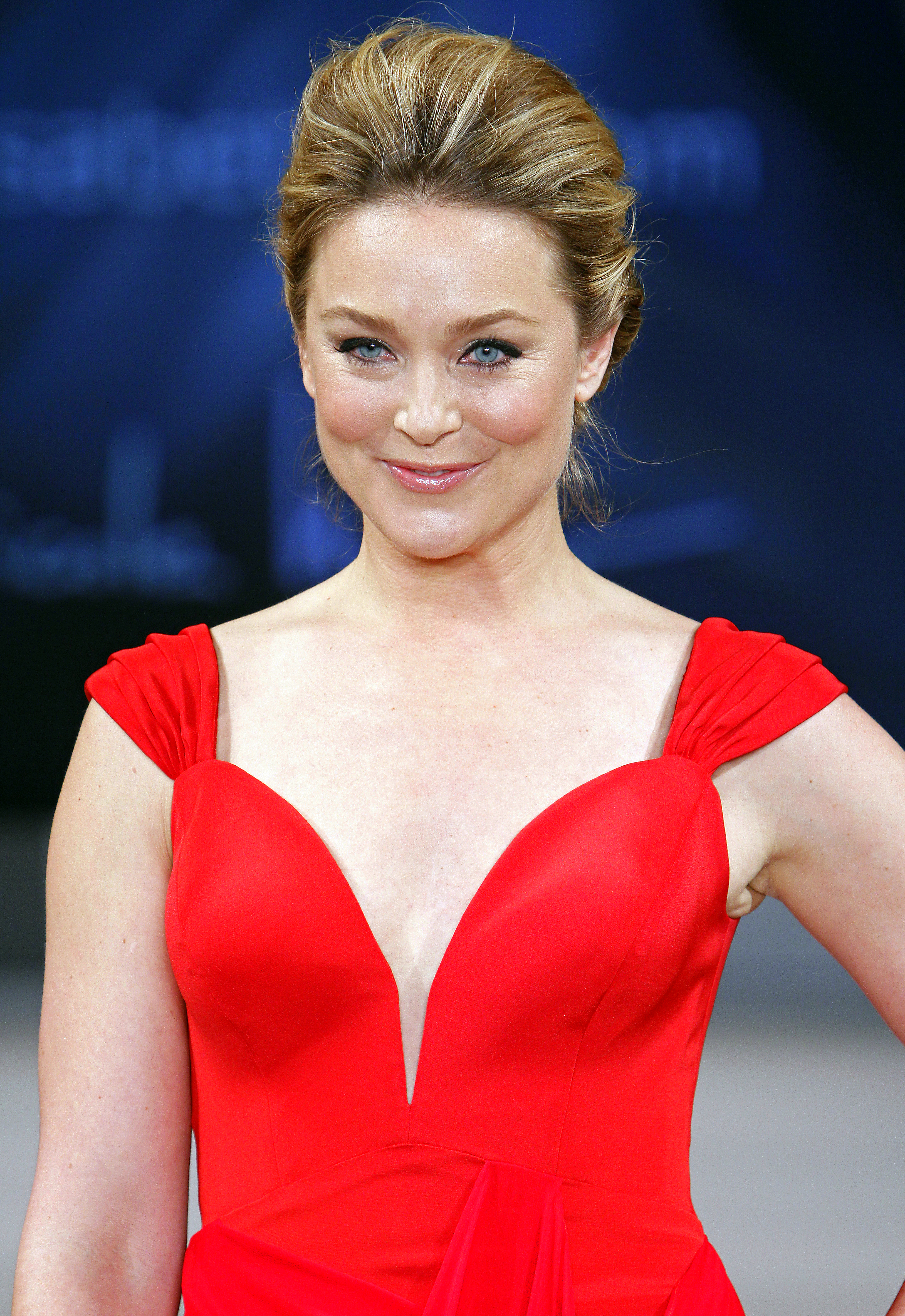 Elisabeth Röhm: The Heart Truth's Red Dress Collection Fashion Show 2012.